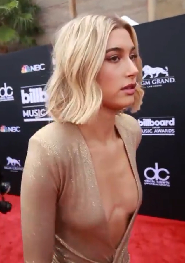 Backstage At The 2018 Billboard Music Awards, With Host Jaymes Vaughan, Featuring Other Hosts, Celebrities, Production Crew & More!